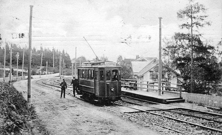 Engerjordet is a former light rail station on the Holmenkoll Line in Oslo, Norway.